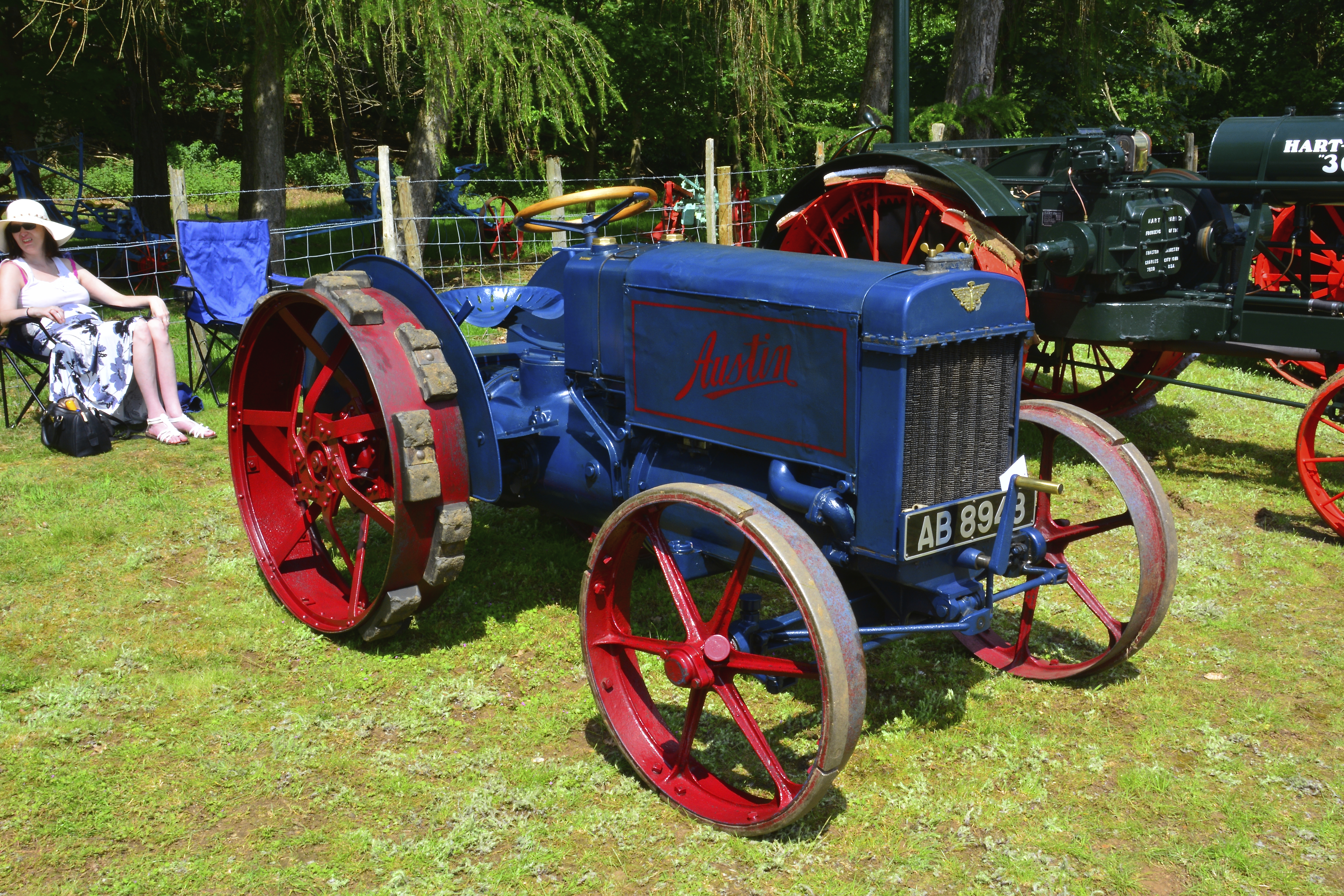 Austin tractor Woolpit Steam Rally Suffolk 1-6-2014